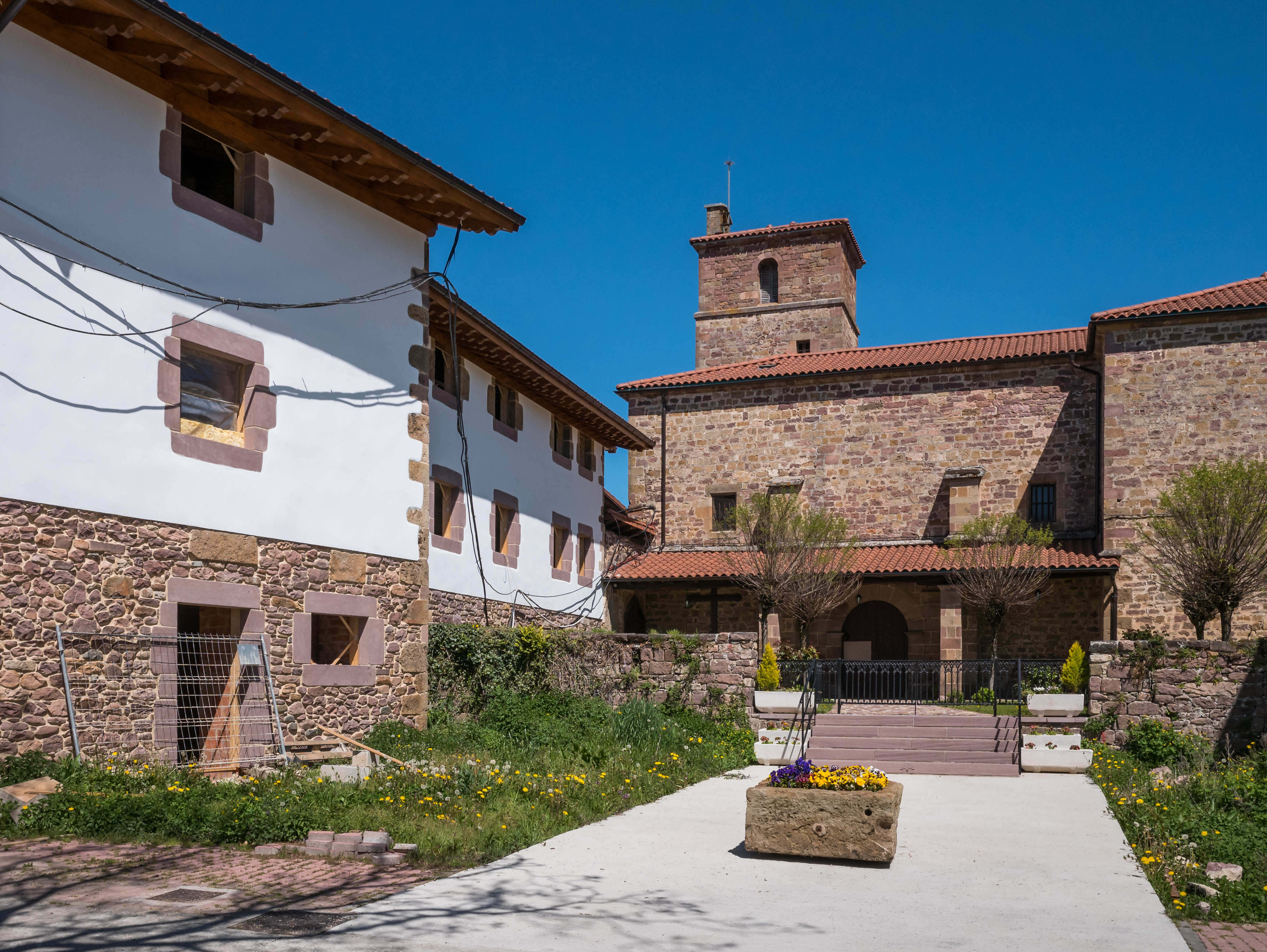 Village houses and the church of Lanz. Navarre, Spain